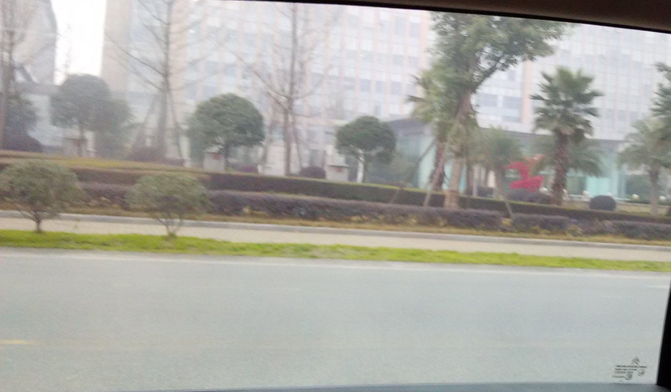 sichuan Petrochemistry projet office building.